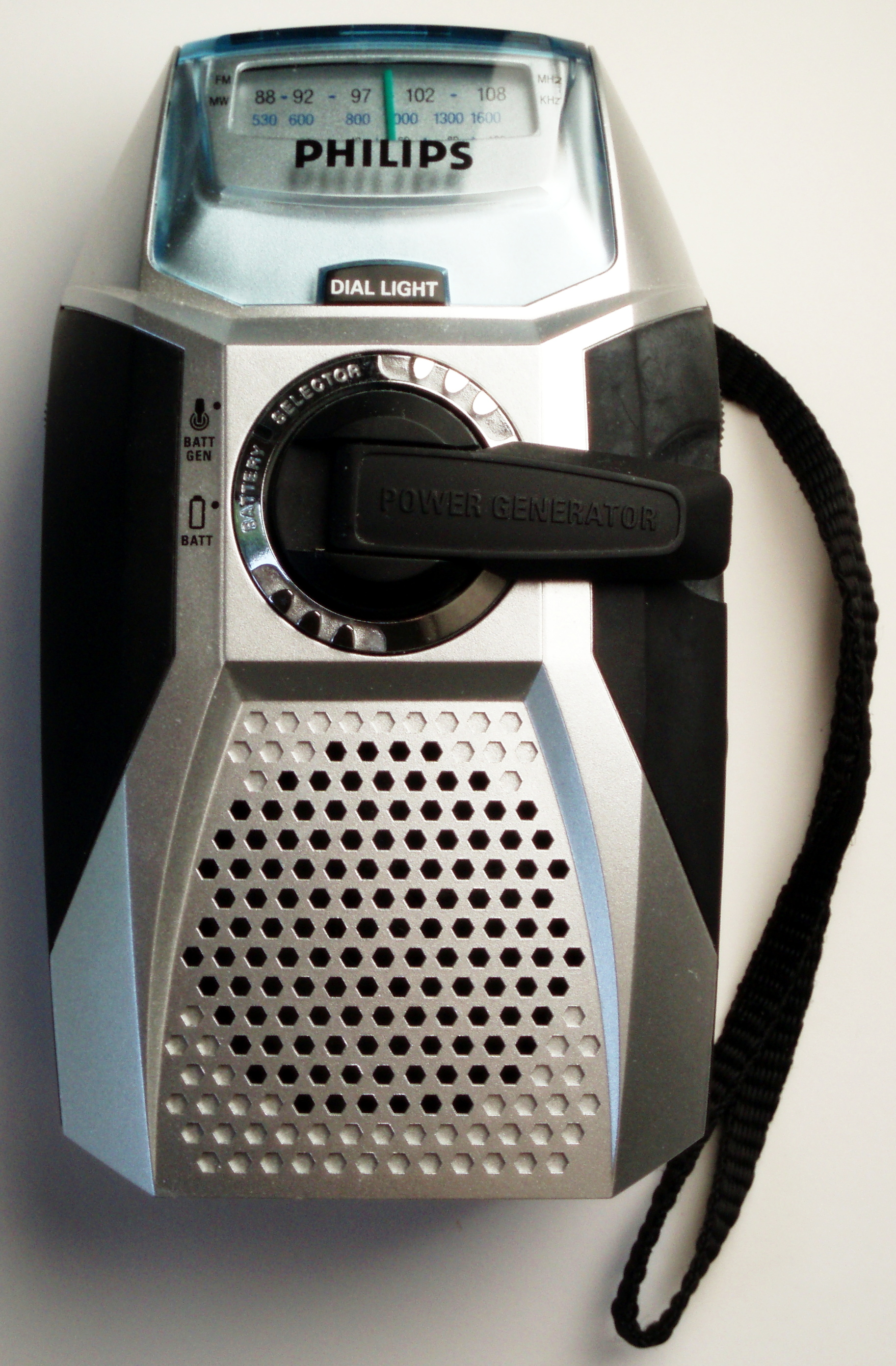 Philips AE1000 hand-crank radio